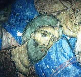 St. Andrew. A detail of the fresco from the Kintsvisi monastery